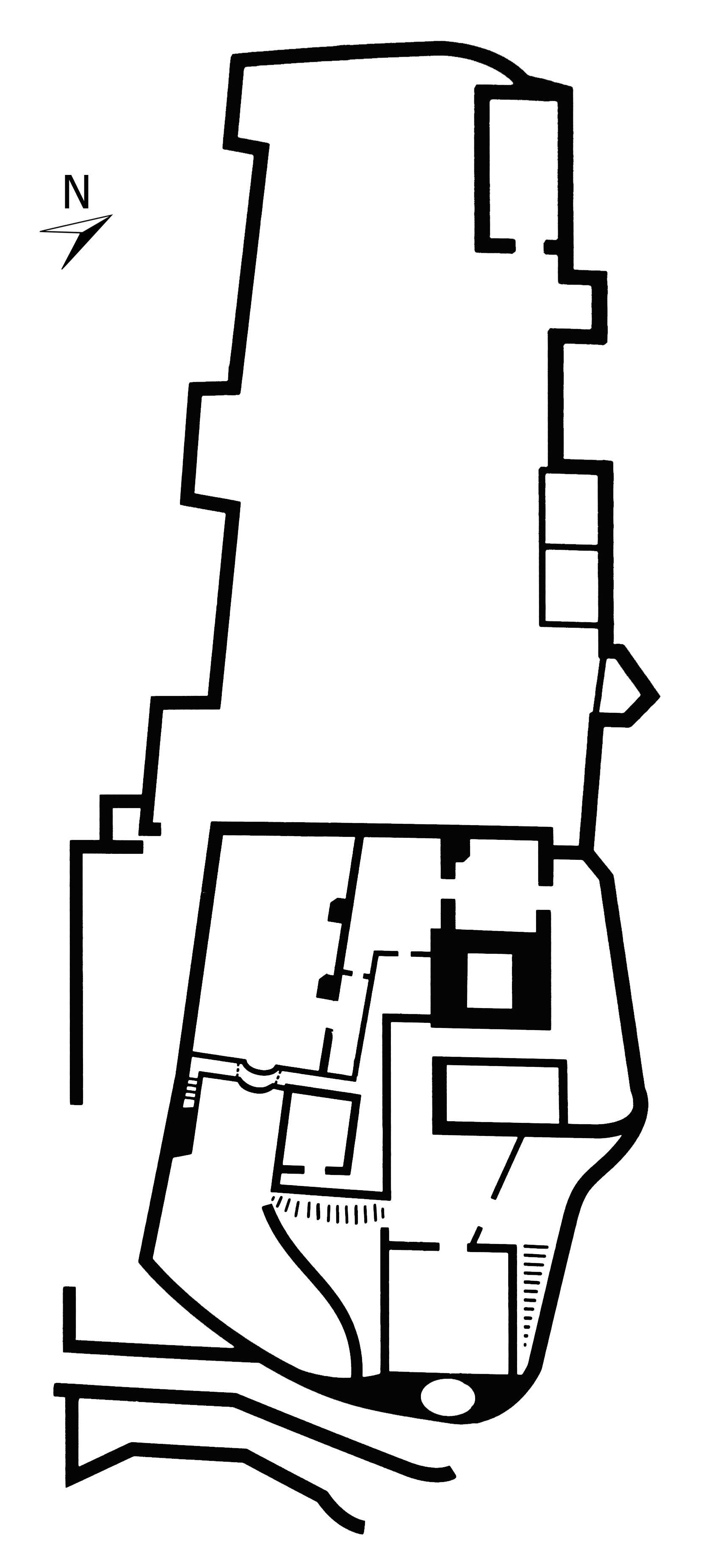 Castle of Palafolls - Plane